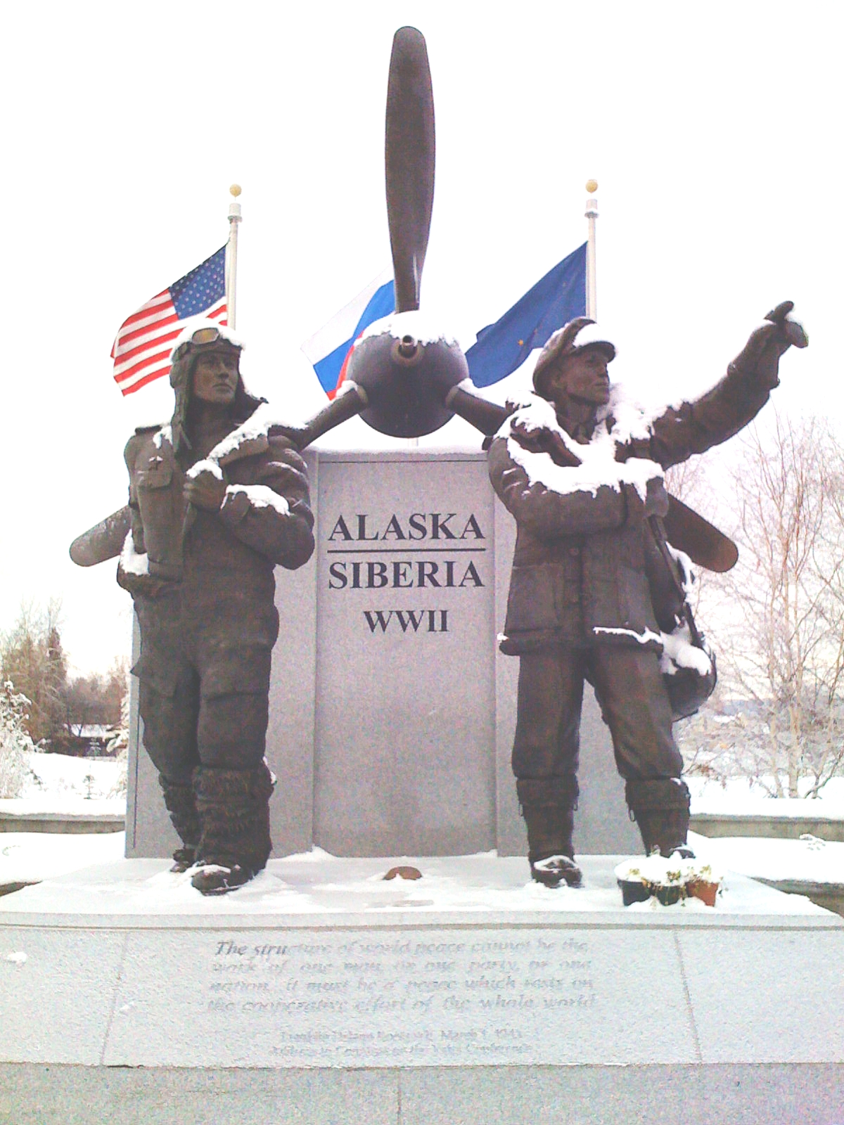 The Lend-lease memorial in Fairbanks, Alaska. Inscription reads: "The structure of world peace cannot be the work of one man, or one party, or one nation... it must be a peace which rests on the cooperative effort of the whole world. (Franklin Delano Roosevelt, March 1, 1945, Address to Congress on the Yalta Conference)"